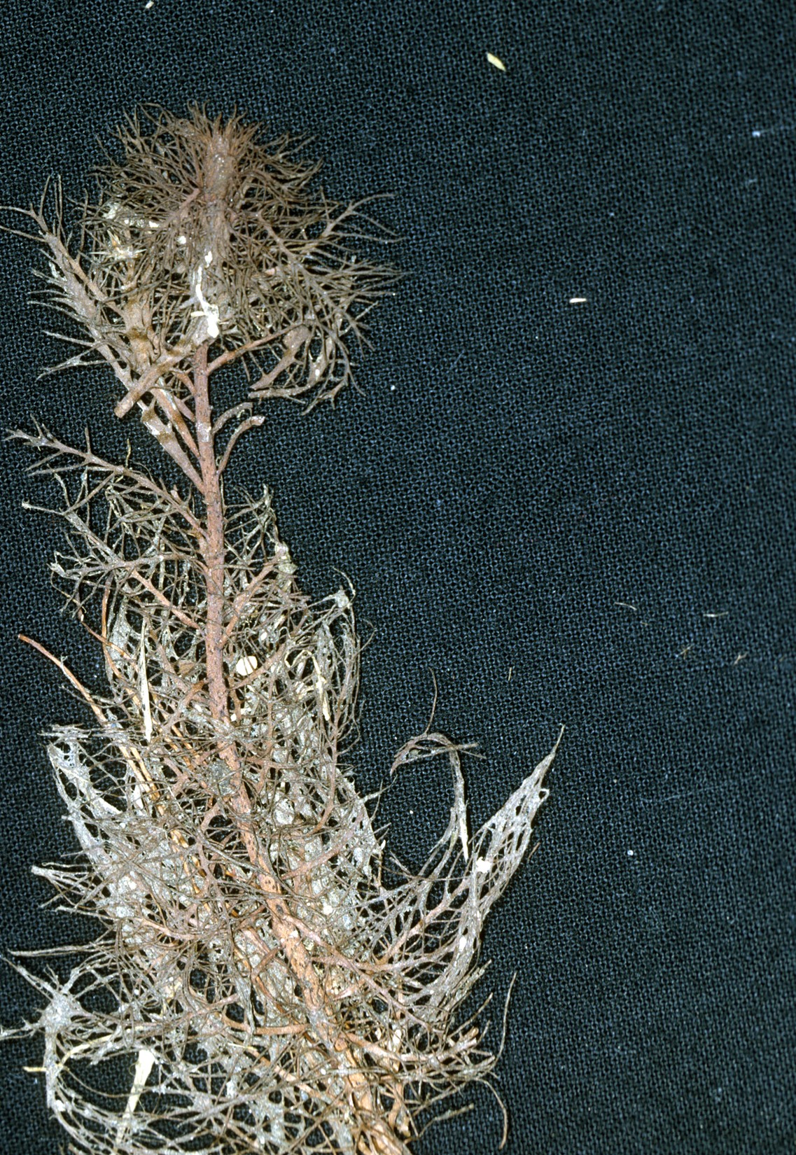 twoleaf watermilfoil